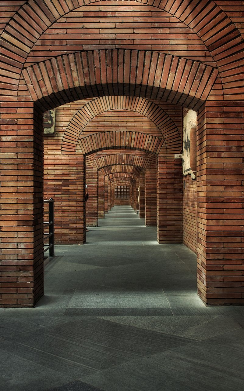 National Roman Art Museum of Mérida (Spain).